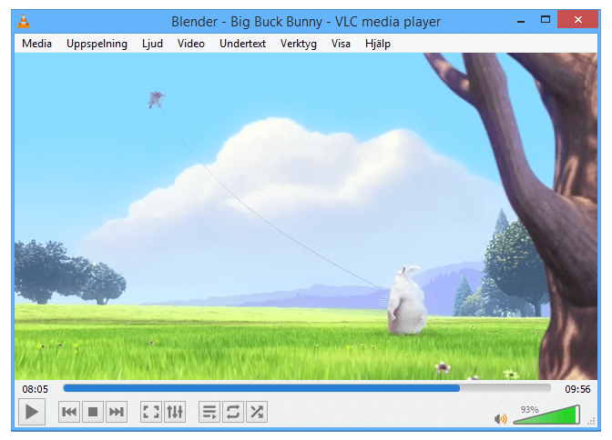 A screenshot showing the Swedish version of VLC media player 3.0.1 running on Windows 8.1.